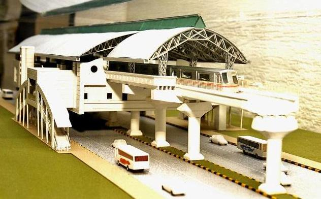 A model of a metro rail station developed by DMRC for the Kochi metro.